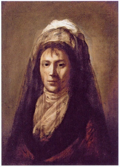 Catherine Rostopchina